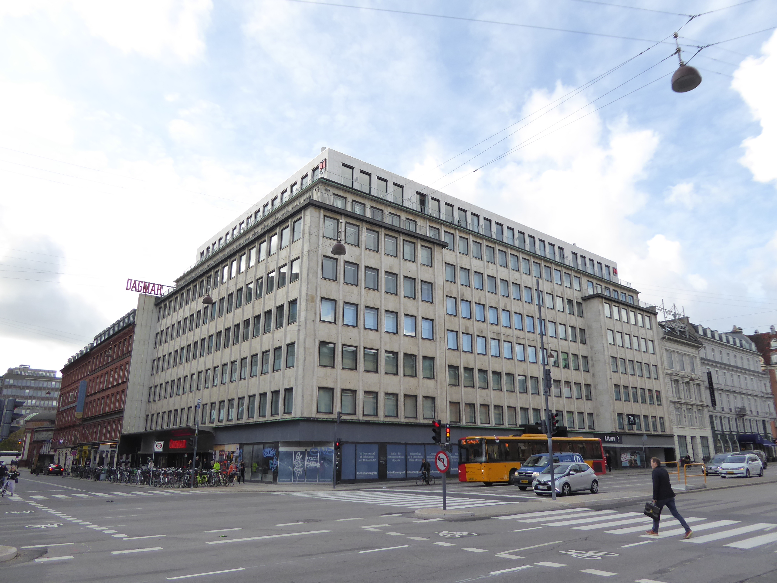 The office building Dagmarhus at the corner of Jernbanegade and H.C. Andersens Boulevard in Copenhagen. It was build in 1937-1939 to a design by Christian Kampmann and Hans Dahlerup Berthelsen. During World War II the building was used by the German occupation forces.